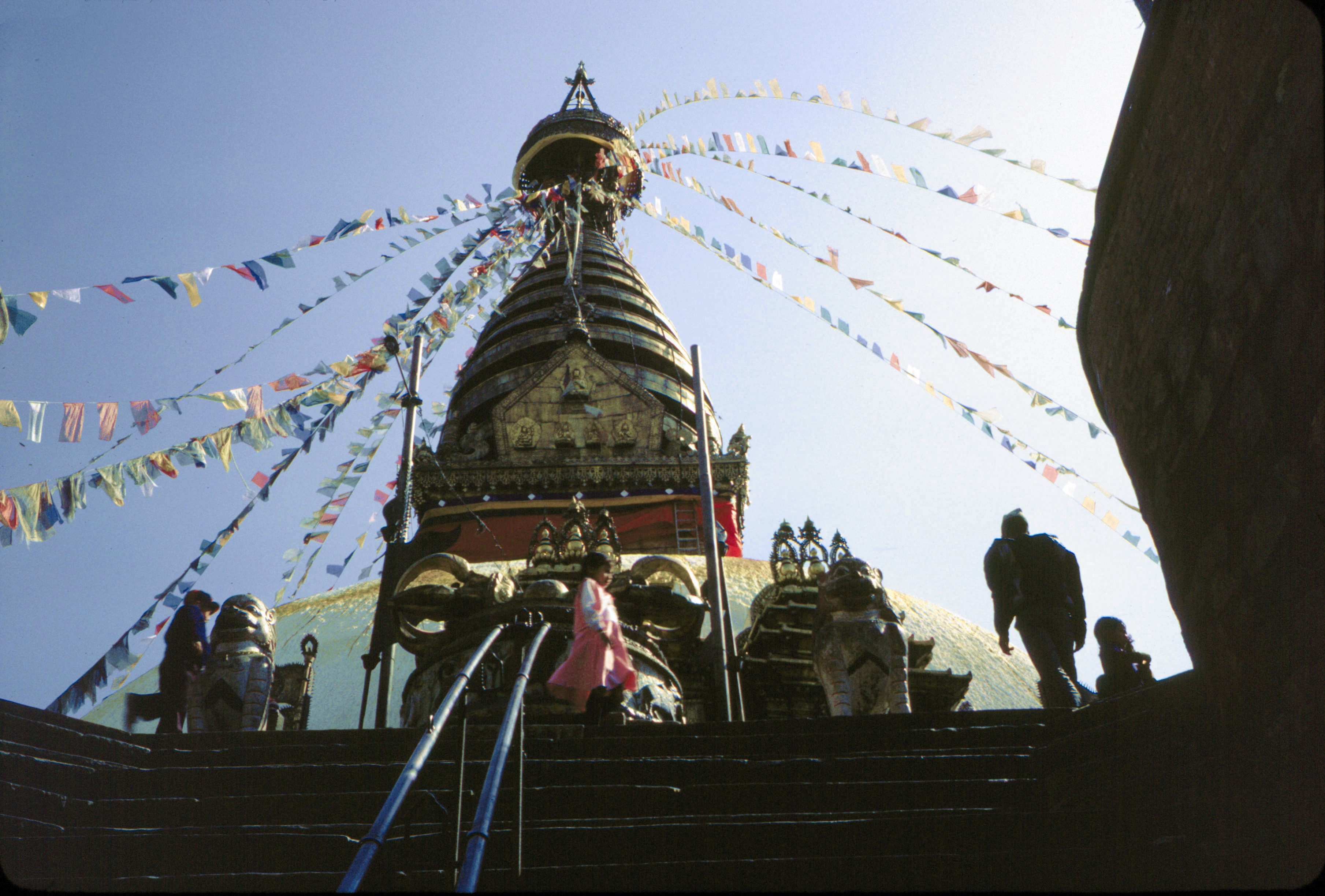 Description: Syambhunath Stupa temple near Kathmandu, Nepal Source: Ulrich Egert